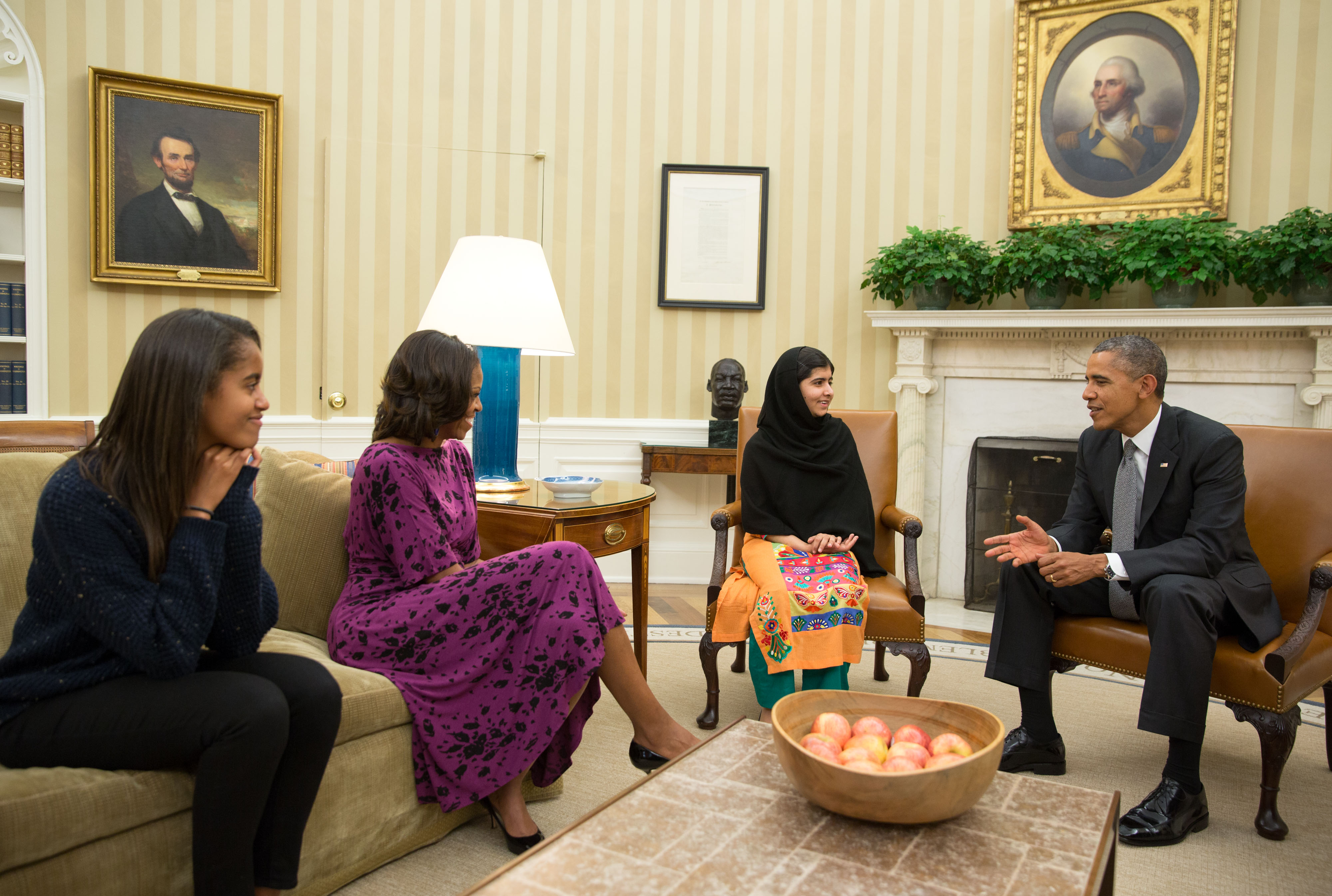 United States President Barack Obama (right), First Lady Michelle Obama (second from left), and their daughter Malia (left) meet with Malala Yousafzai (second from right), a young Pakistani schoolgirl who was shot in the head by the Taliban in 2012, in the Oval Office on 11 October 2013.